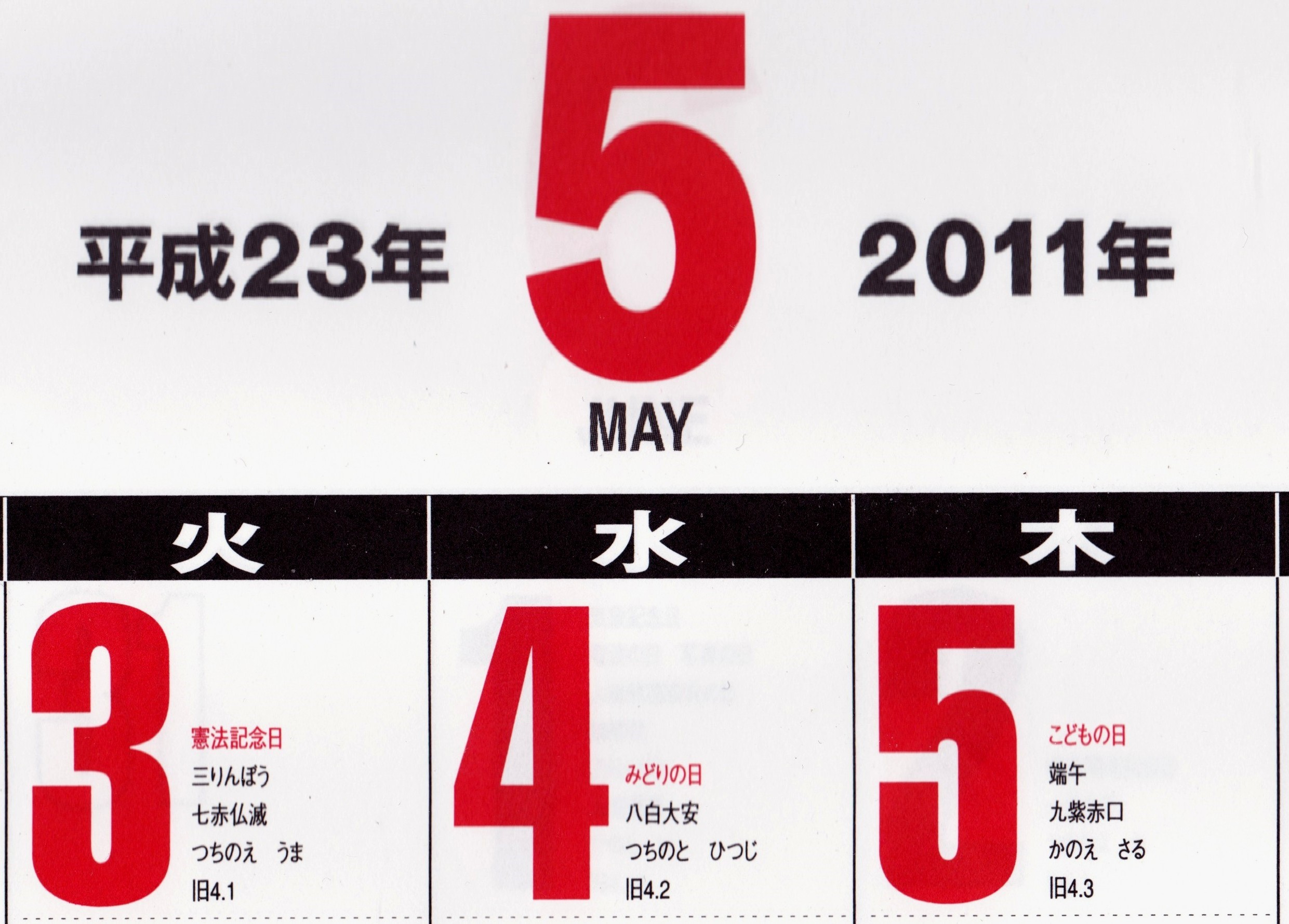 Japanese calendar with astrological data